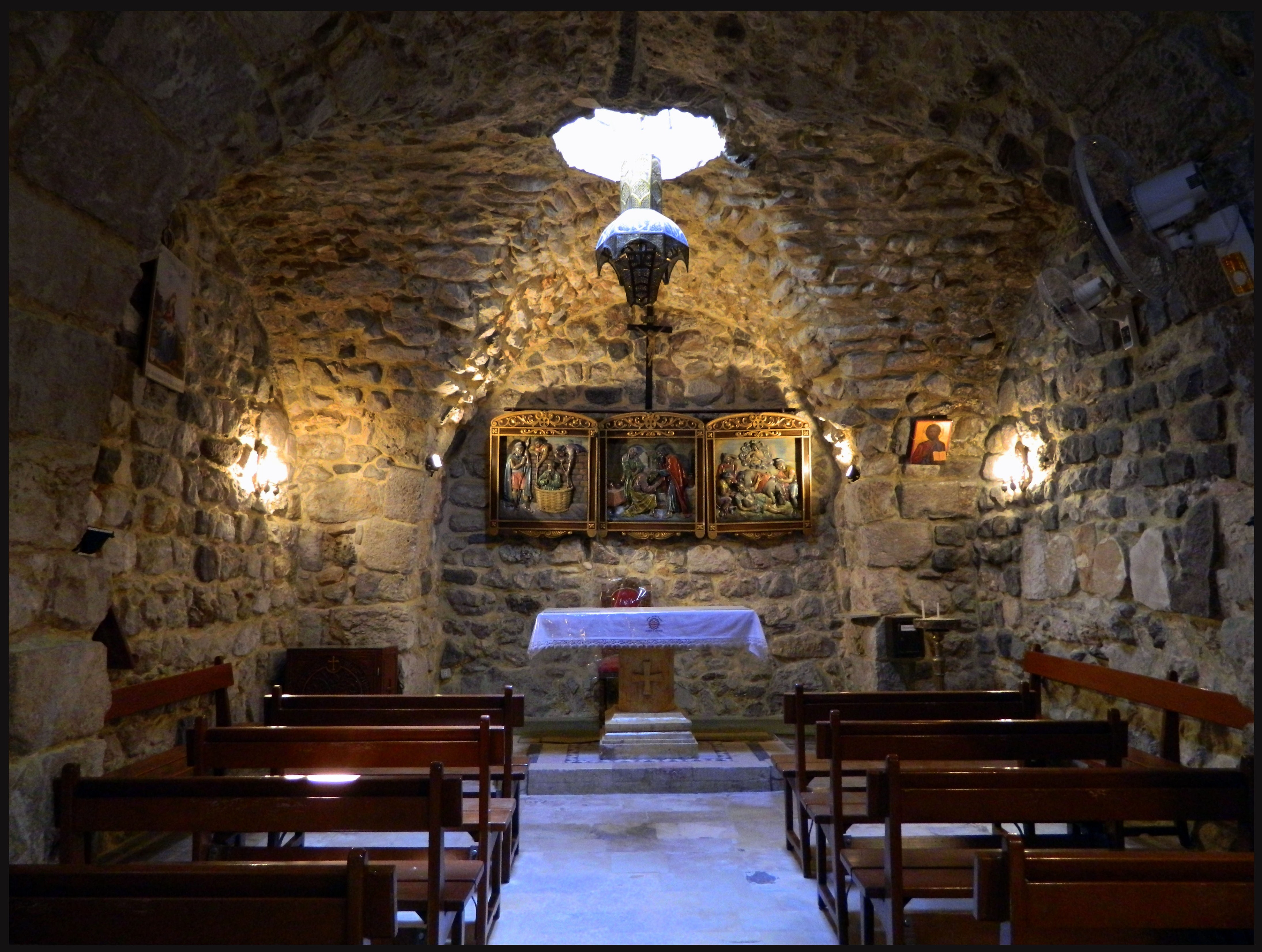 st ananias church Damascus.